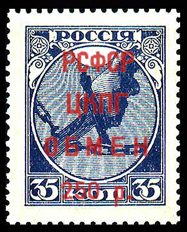 RSFSR CKPG stamp, 1922, 250 r.